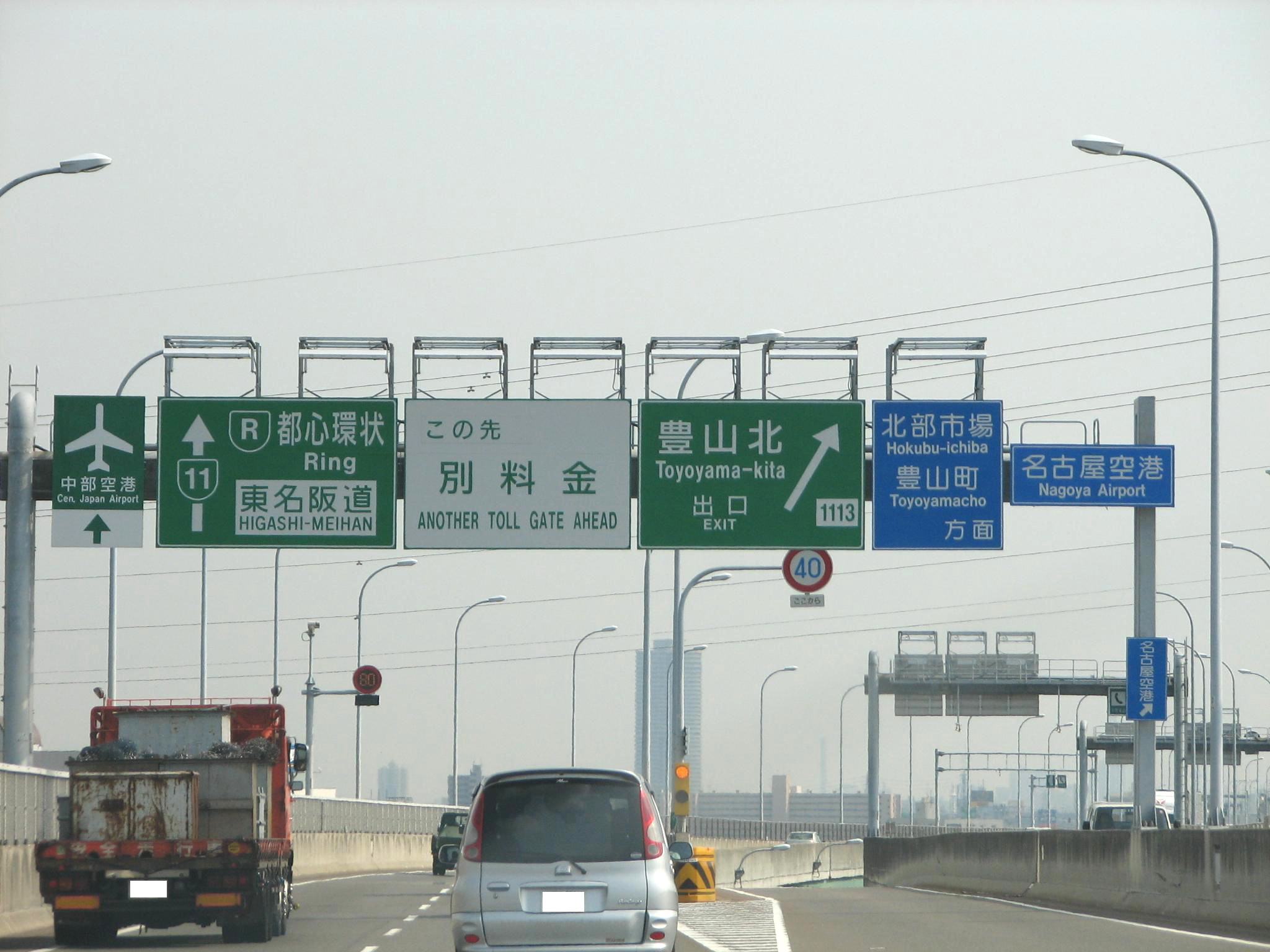 Sign for Toyoyama-kita Interchange on the Nagoya Expressway Route 11